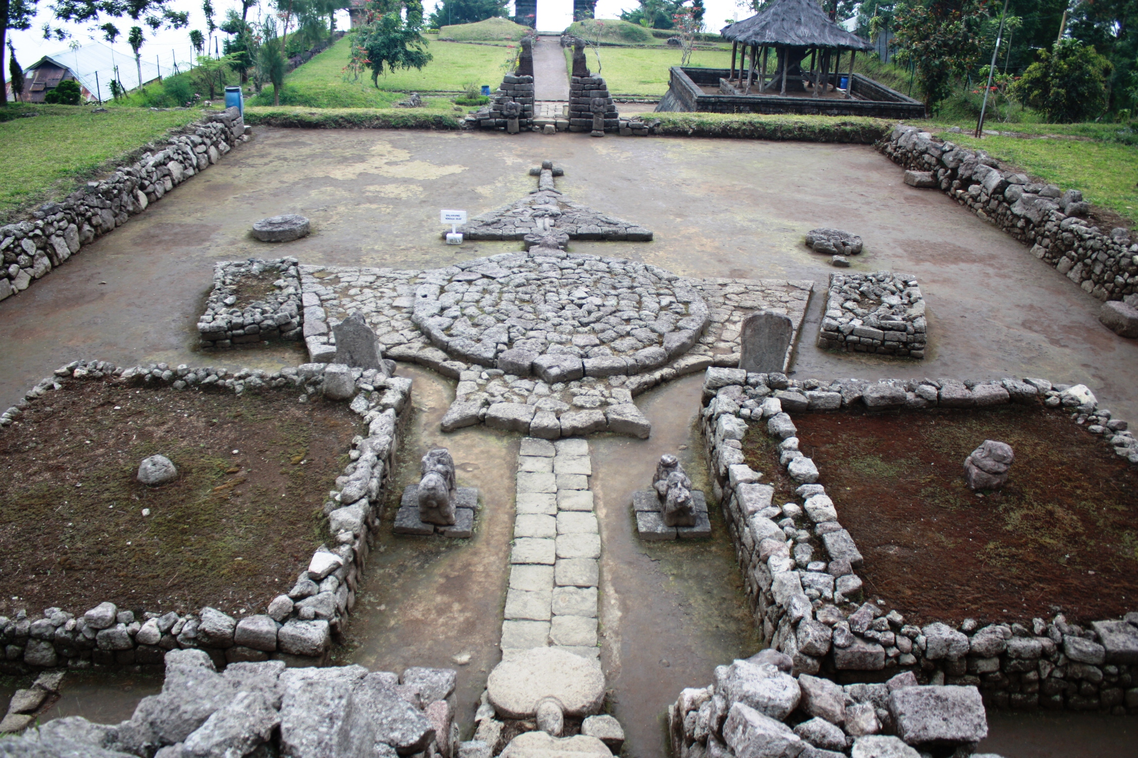 Candi Cetho is one of several temples built on the northwest slopes of Mount Lawu in the fifteenth century. By this time, Javanese religion and art had diverged from Indian precepts that had been so influential on temples styles during the 8-10th century. This area was the last significant area of temple building in Java before the island's courts were converted to Islam in the 16th century. The temples' distinctiveness and the lack of records of Javanese ceremonies and beliefs of the era make it difficult for historians to interpret the significance of these antiquities.Candi Cetho is situé sur les flancs Ouest du Mont Lawu à 80 km Est de Solo